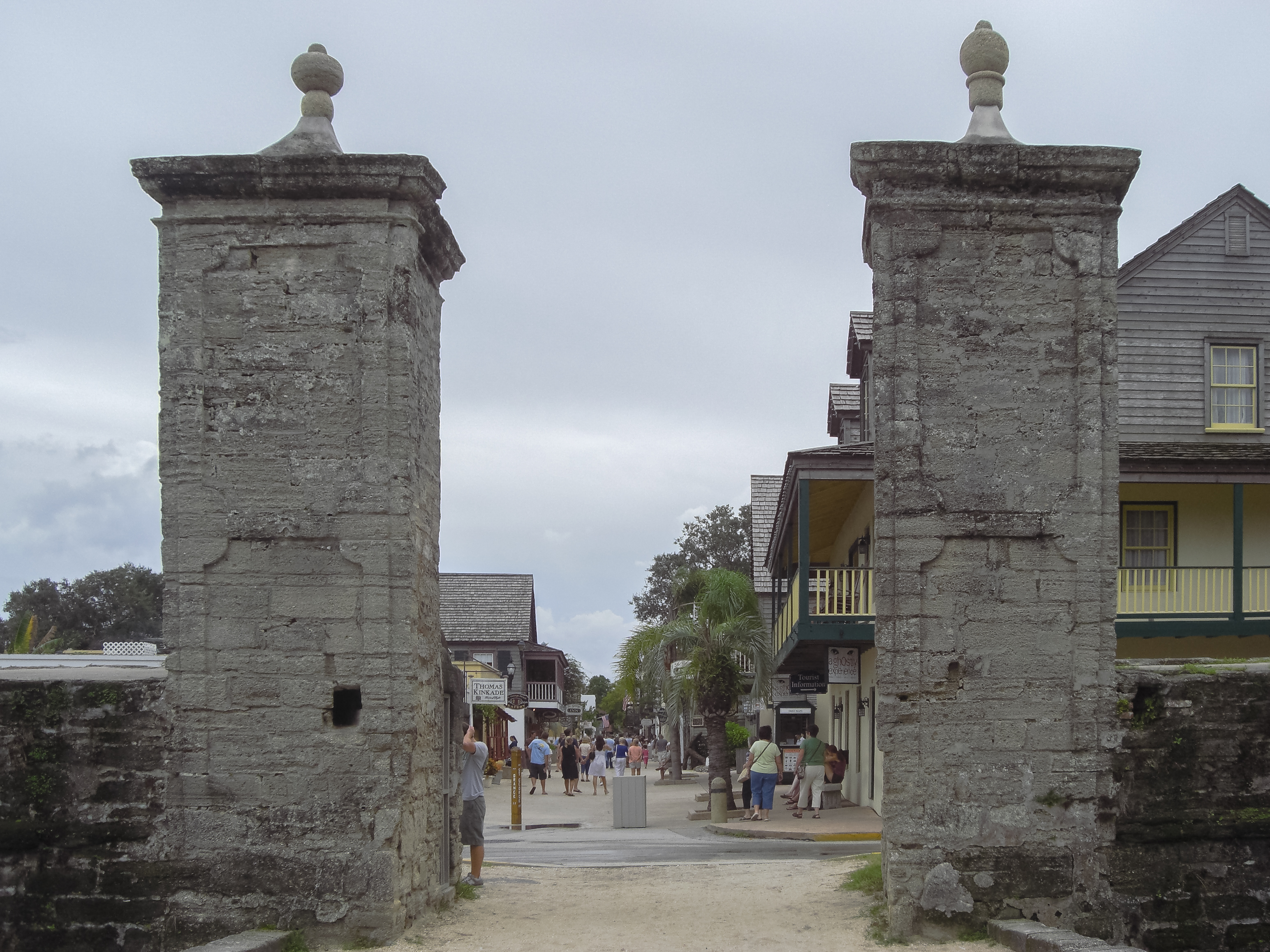 City walls and gate of St. Augustine, Florida, USA